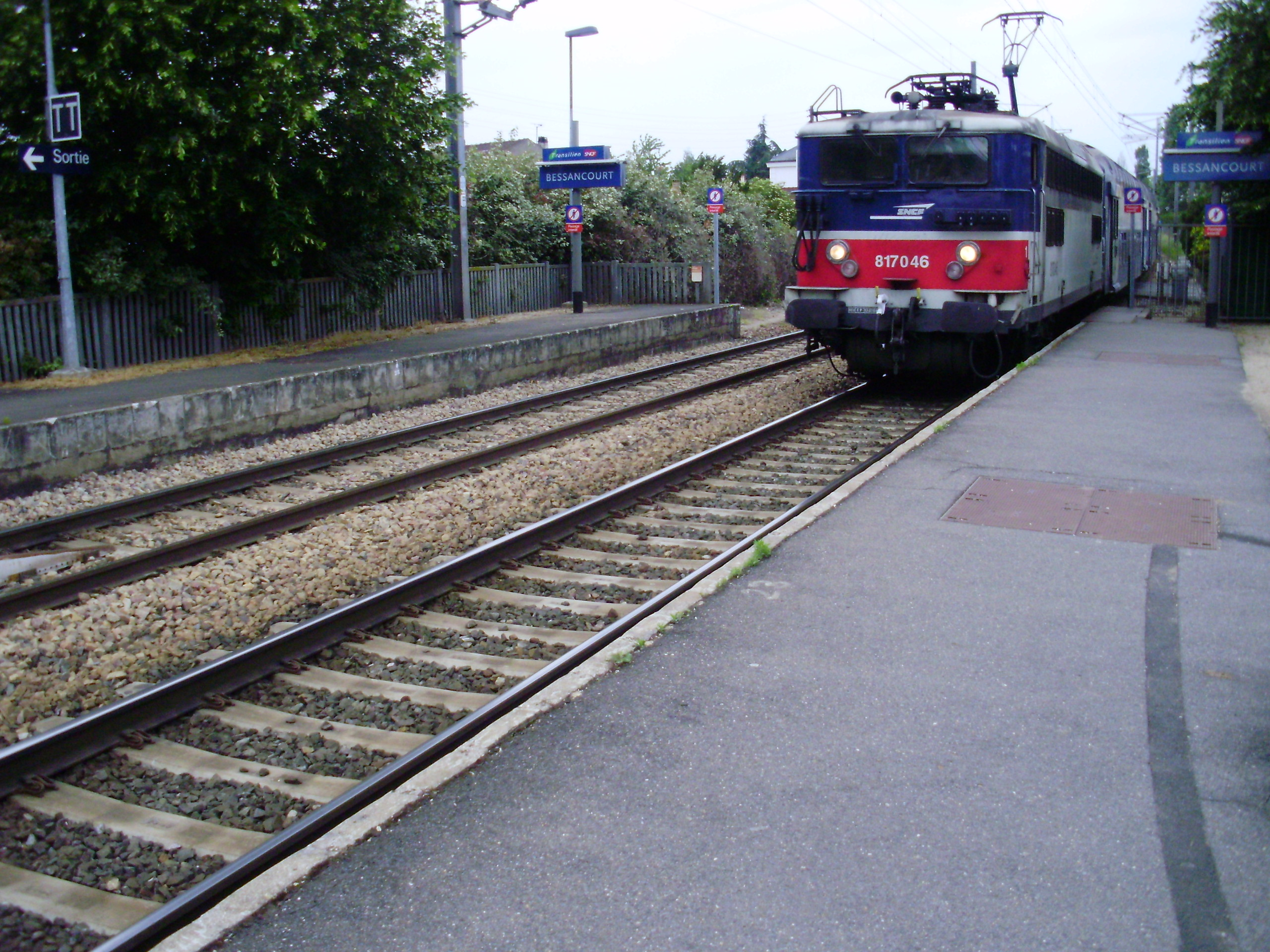 Bessancourt station, Val-d'Oise, France (arrival of a Valmondois - Paris train)